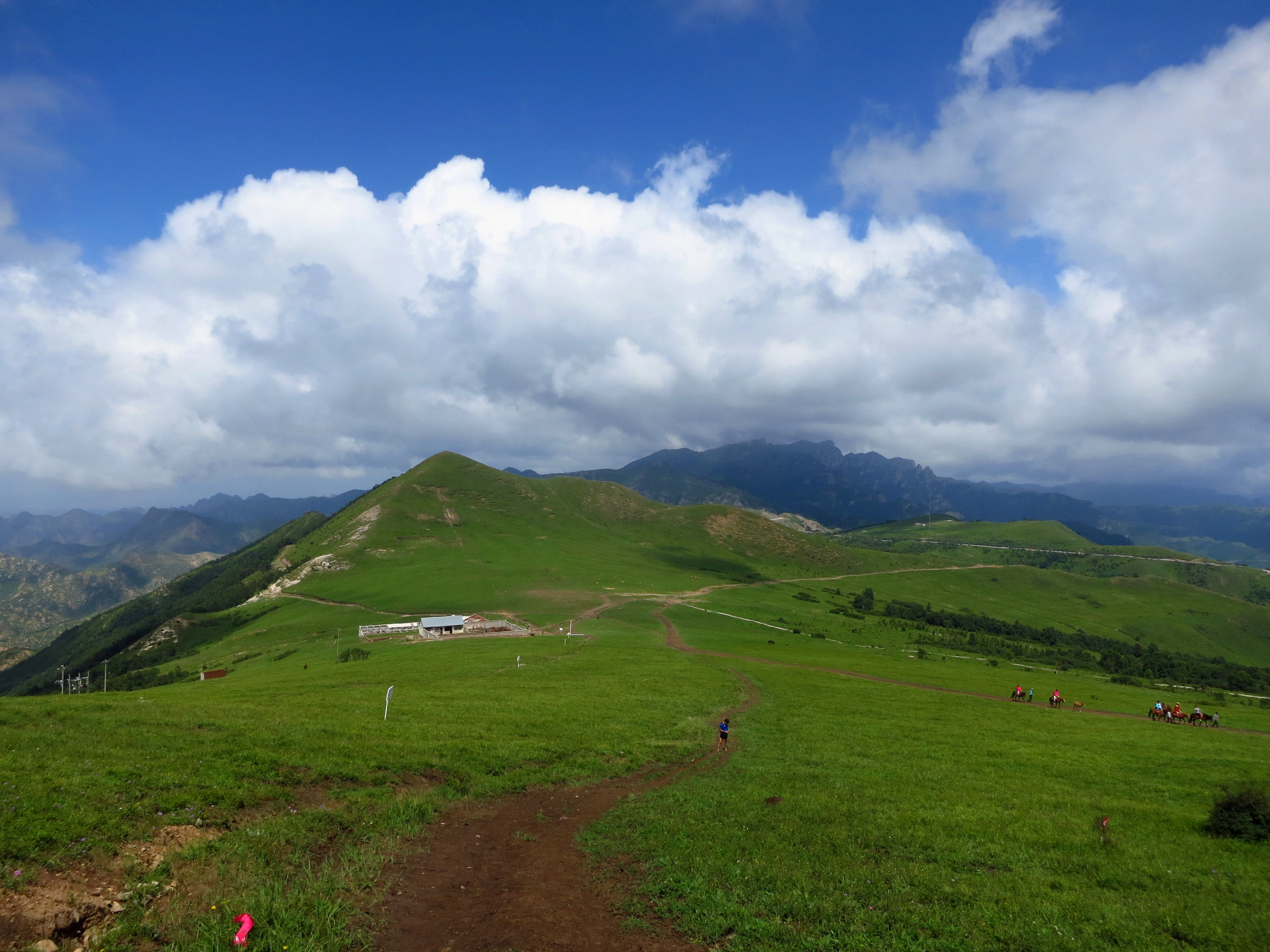 灵山美景 - Scenery of Lingshan Mountain - 2016.08